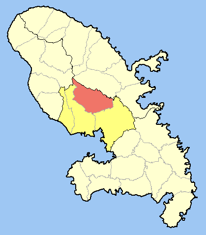 Location of Saint-Joseph within Martinique